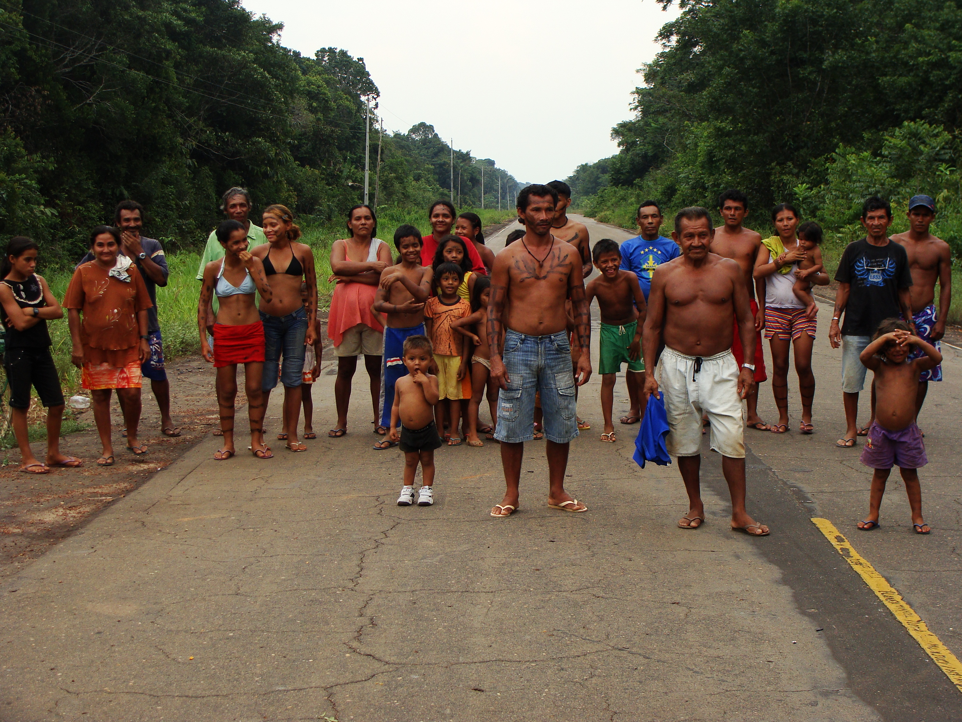 All the tribe